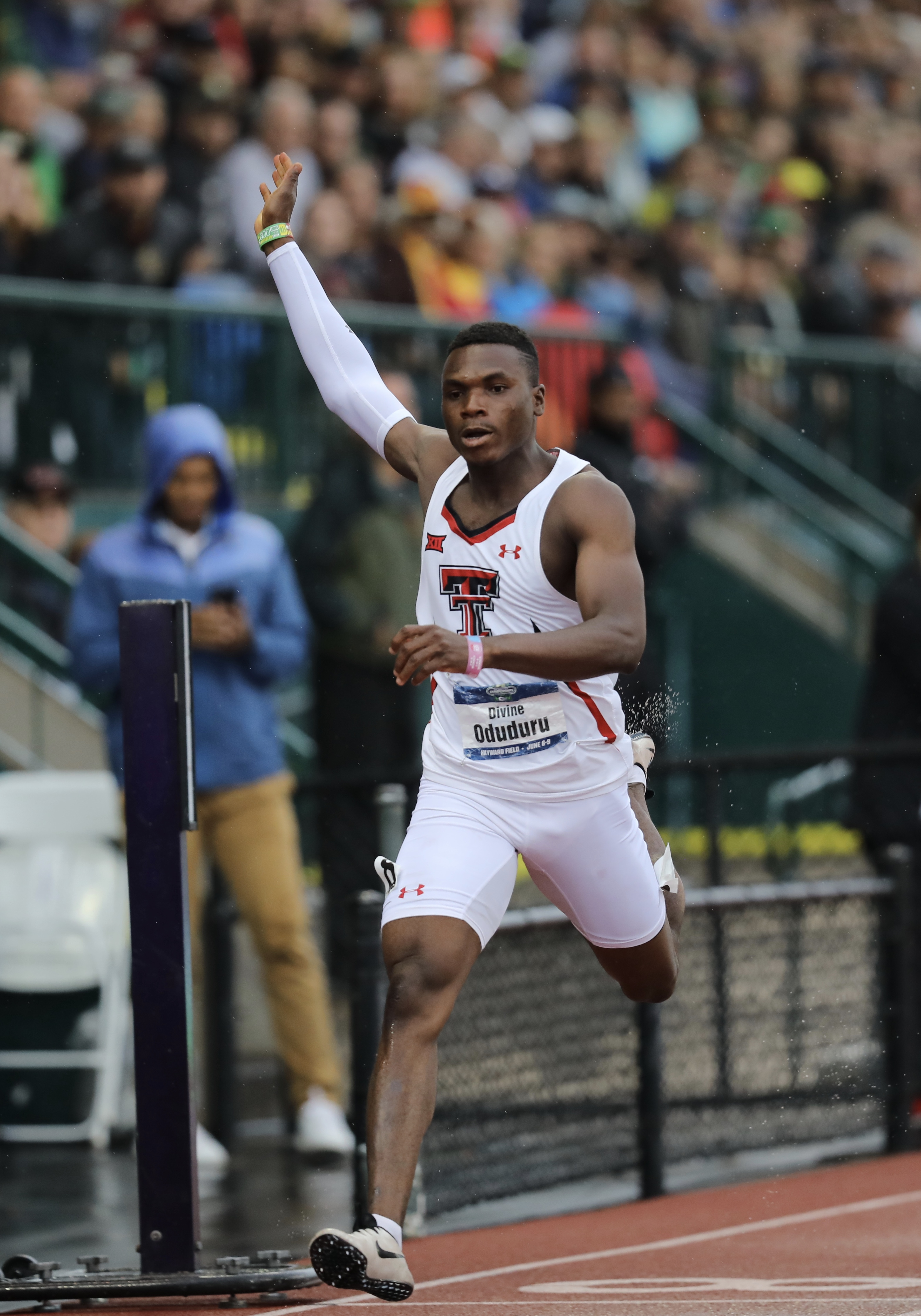 2018 NCAA Division I Outdoor Track and Field Championships